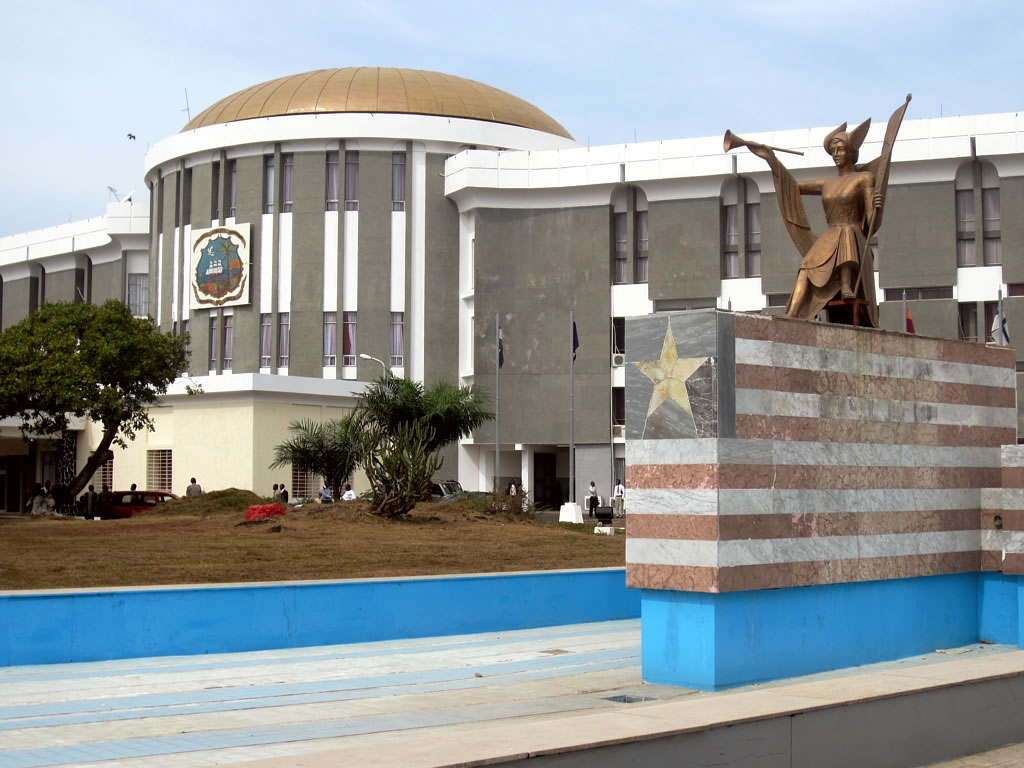 Erected in 1957, the Capitol Building in Monrovia is the seat of Liberia's bicameral legislature.